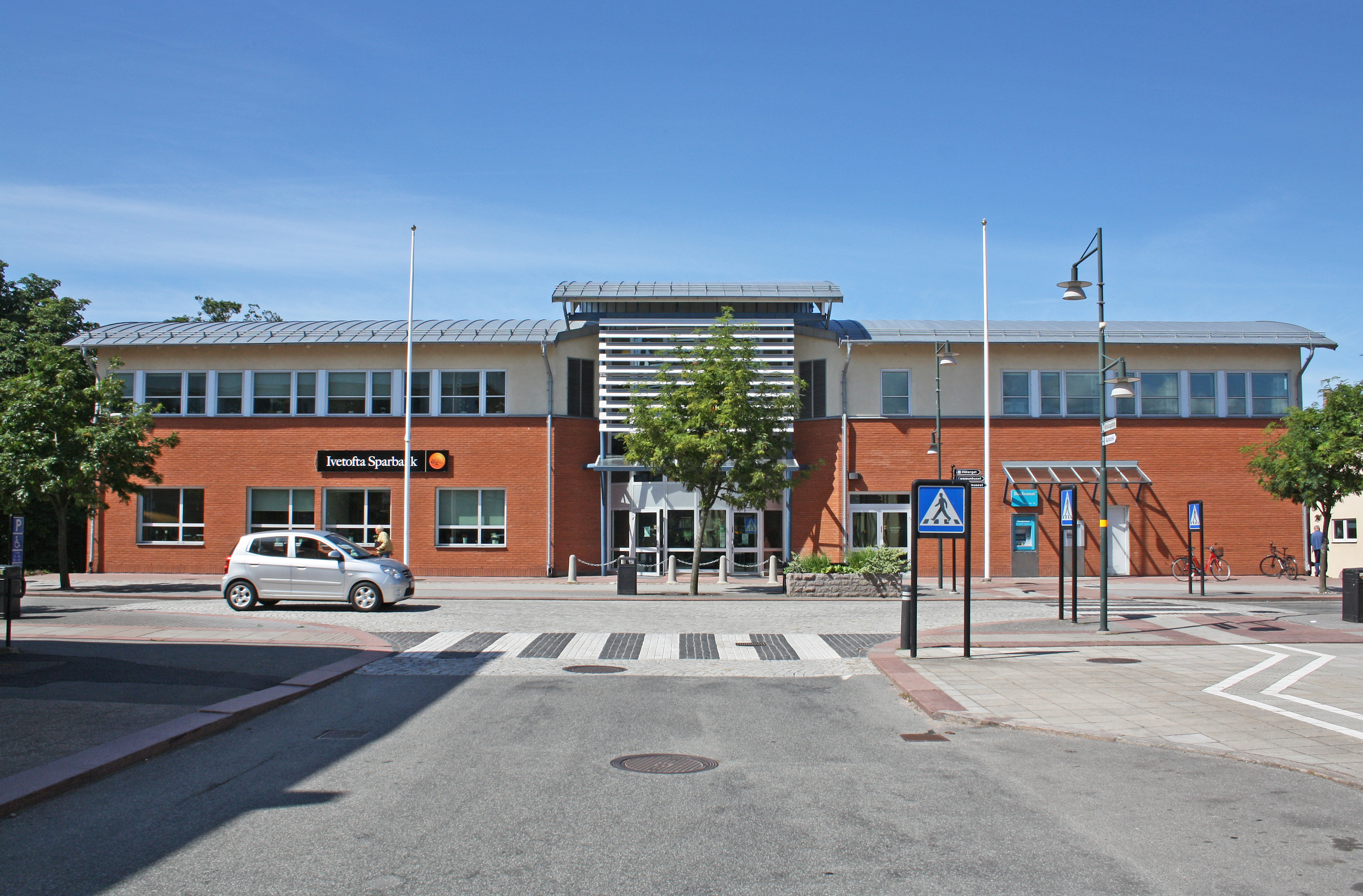 The head office building of Ivetofta sparbank, in Bromölla, 6 July 2017.